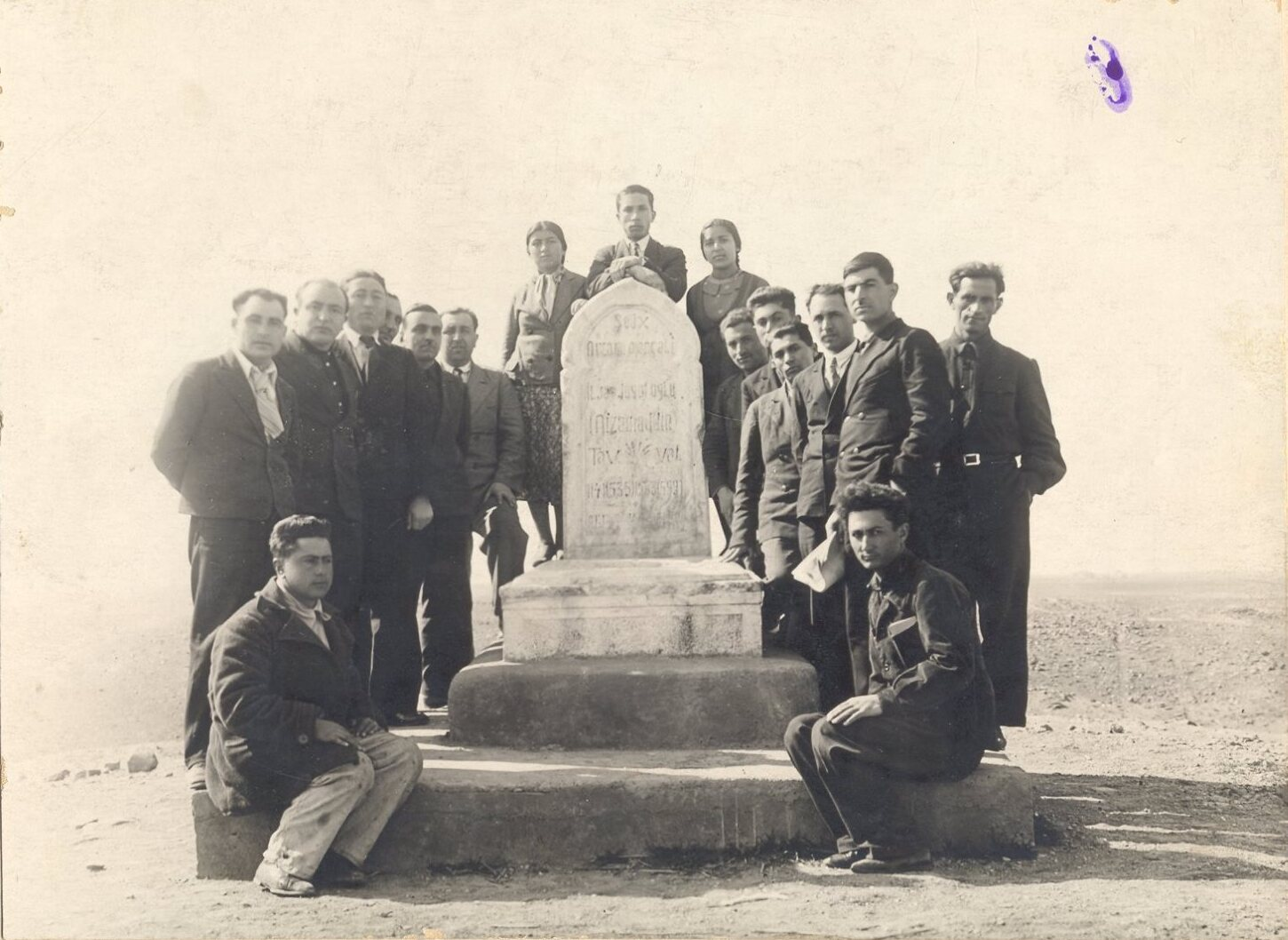 Teachers and students of Ganja Pedagogical Institute near the grave of Nizami Gabjavi